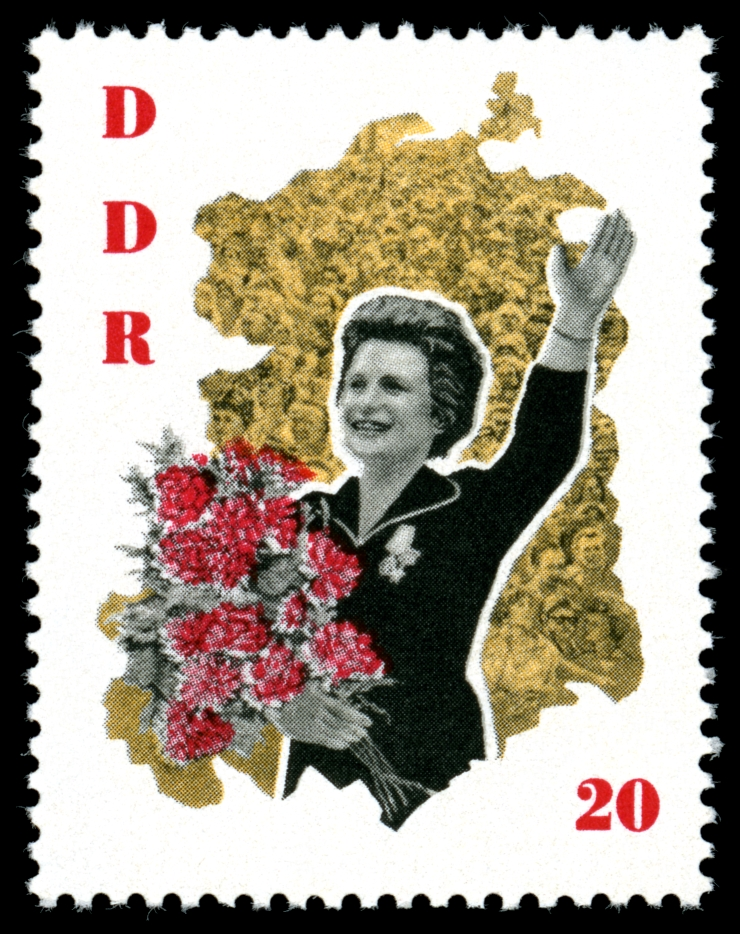 Ausgabepreis: 20 Pfennig First Day of Issue / Erstausgabetag: 17.10.1963 Auflage: 6.000.000 Entwurf: Sauer Druckverfahren: Offsetdruck Michel-Katalog-Nr: Ländercode-MiNr: 994 Licensing This file is most likely NOT in the public domain. It has been marked for review, and will be deleted in due course if the review does not find it to be in the public domain. This file was previously considered to be in the public domain as a German stamp; it is possible that it is in the public domain for other reasons, in which case a new rationale will be applied as part of the review process. See below for the previous rationale. Previous public domain rationale, no longer applicable This stamp is in the public domain in Germany because it was released by the postal administration of the German Democratic Republic or the Soviet occupation zone (Deutschen Post der DDR) whose legal successor is the Federal Republic of Germany. Thus it is an official work according to German copyright law (§ 5 Abs. 1 UrhG).